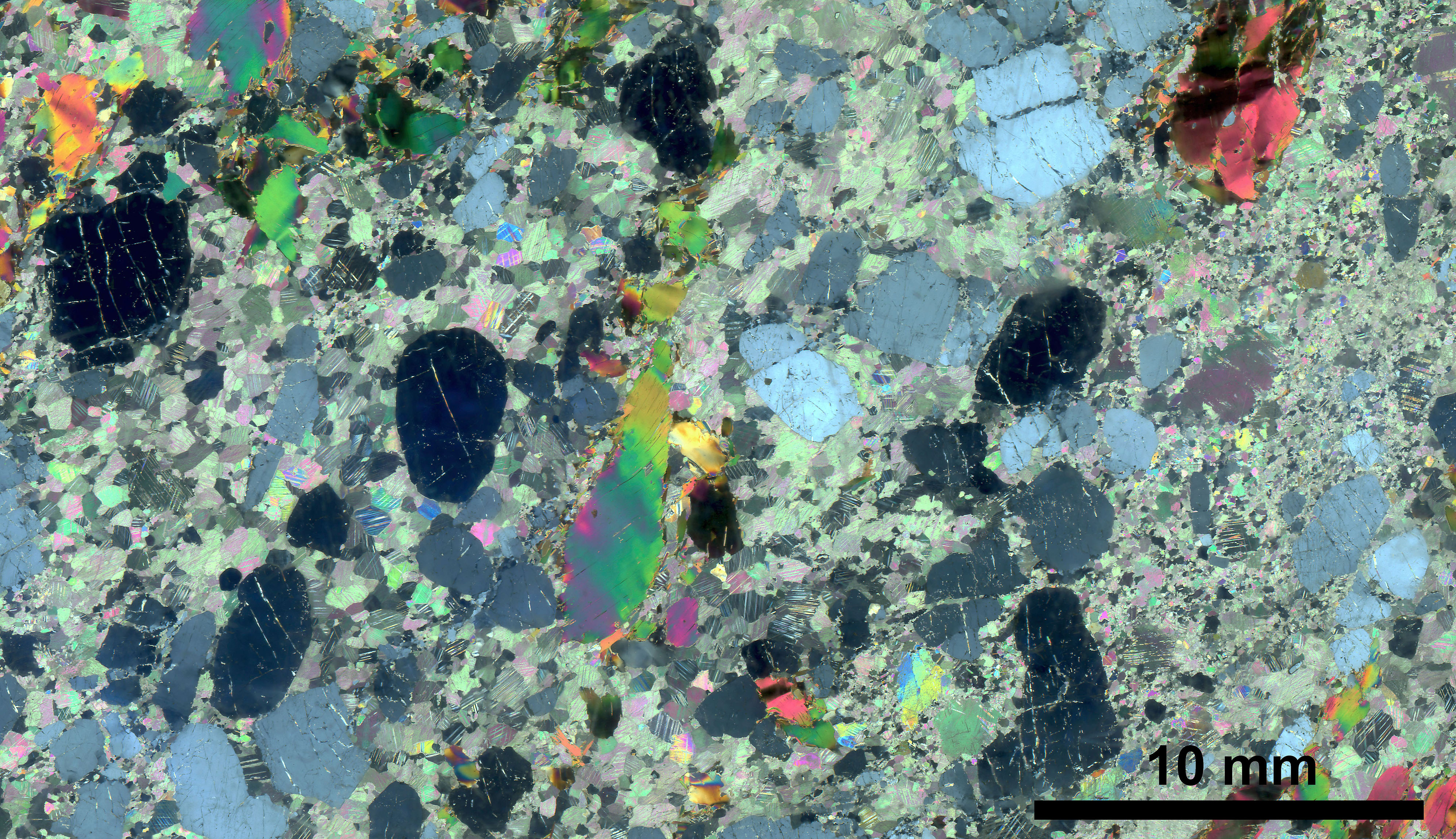 Scanned image of thin section from Siilinjärvi apatite ore in cross polarised transmitted light. The thin section presents apatite-rich carbonate ore. The grain size is quite big and the thin section consist mostly of big apatite grains in granular carbonate mass. The sample is not oriented. The grains are mostly anhedral. Carbonates form the groundmass in the sample and 55 % of the thin section area. Calcite is more common carbonate mineral than dolomite. Carbonates form mineral aggregates with granoblastic texture, and the grain size varies in the sample. Dolomite grains are commonly smaller than calcite grains. The biggest grains are 3 mm in diameter. The grains in the aggregates are less than 1 mm in diameter, and regionally the grains in the aggregates can be less than 0.2 mm in diameter. Apatite is present as large porphyroclasts that form 30 area-% of the thin section. Rouded grains are commonly slightly elongated, and have some carbonate inclusions which are oriented along the fractures planes. Grain diameter varies normally between 1 and 4 mm. Tetraferriphlogopite forms 15 area-% of the thin section. Grains are usually large, but some broken pieces are also present. The biggest flake is 8 mm long and 2 mm wide, while the average grain is about 2 mm long and 1 mm wide.